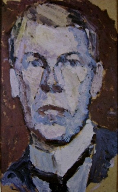 Selfportrait by Joel Pettersson (died 1937), oilpainting